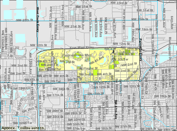 map of Fountainbleau, Florida CDP showing boundaries